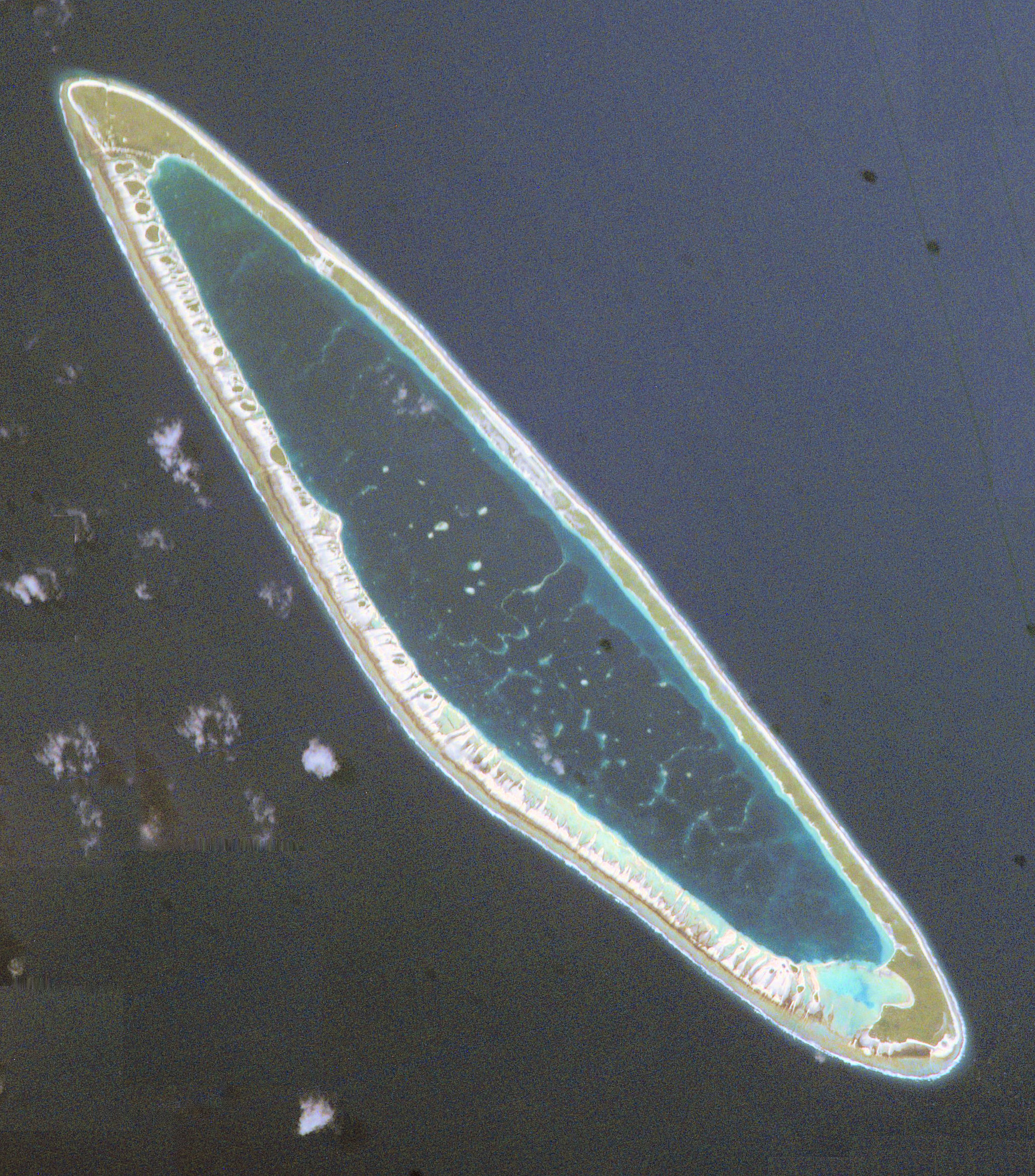 Atoll Pukarua (Tuamotu Archipelago, French Polynesia), from space.